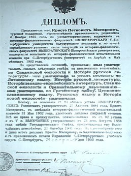 Diploma of Krste Petkov Misirkov from 1902.